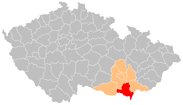 Břeclav District within South Moravia Region. Current borders of districts since January 1, 2007.